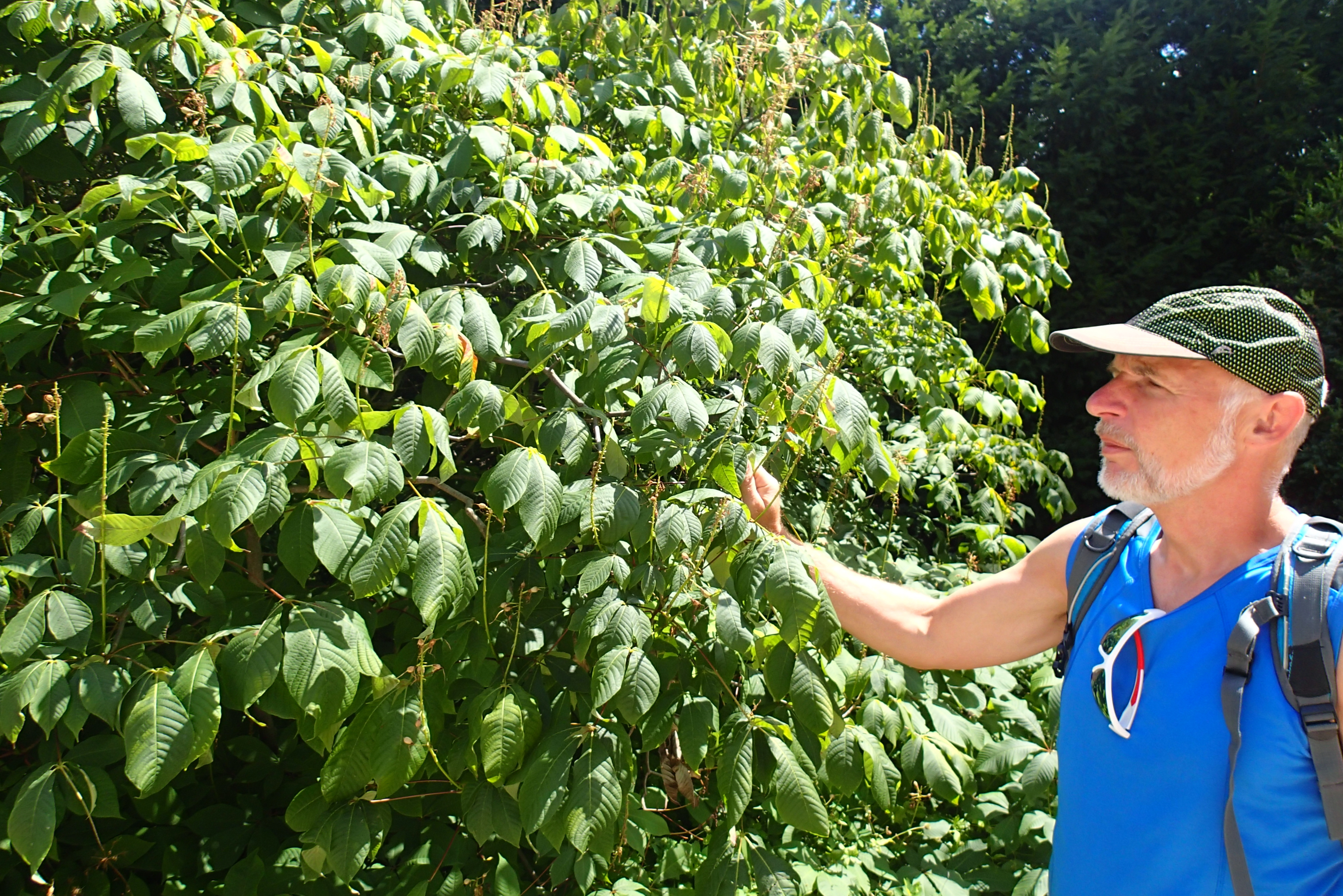 Luděk Grätz a Arboretum Žampach, 2015